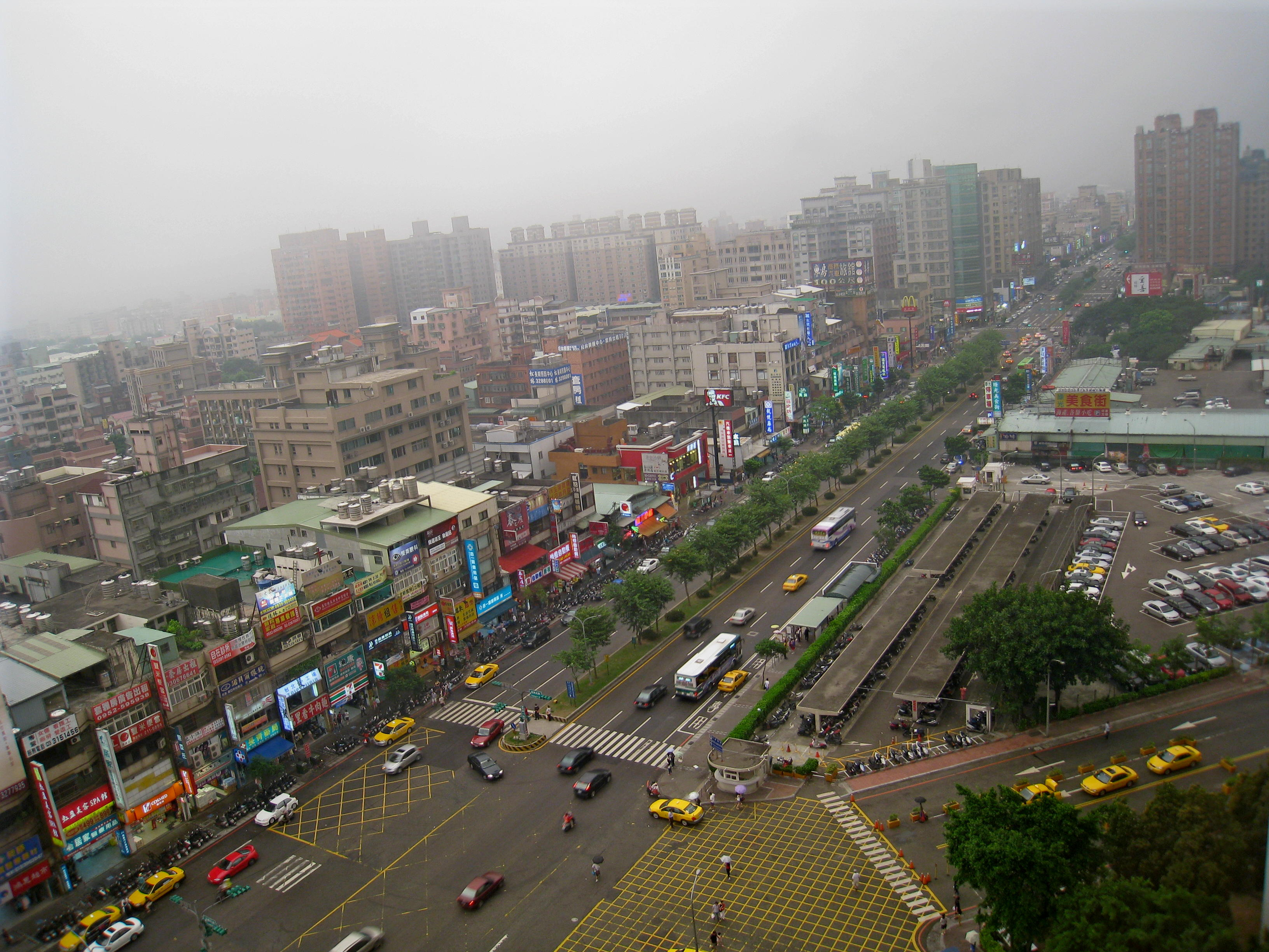 Chang-Gung Shopping District